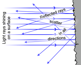 Drawn by Theresa Knott